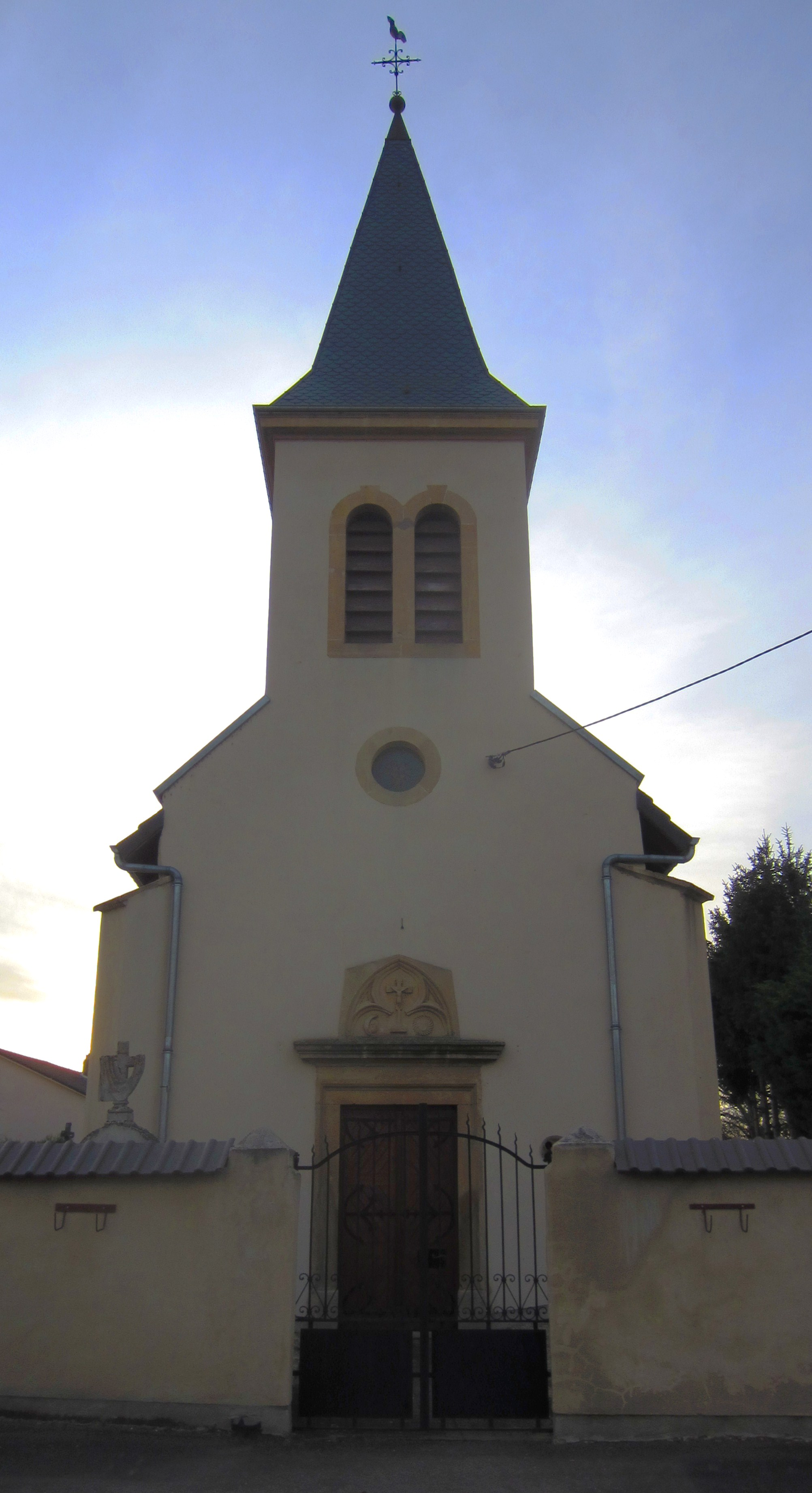 Description chapelle Stuckange Date23 November 2011Sourcemon appareil photoAuthorAimelaimePermission (Reusing this file) chapelle Stuckange